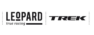 2011 Team Leopard Trek's logo